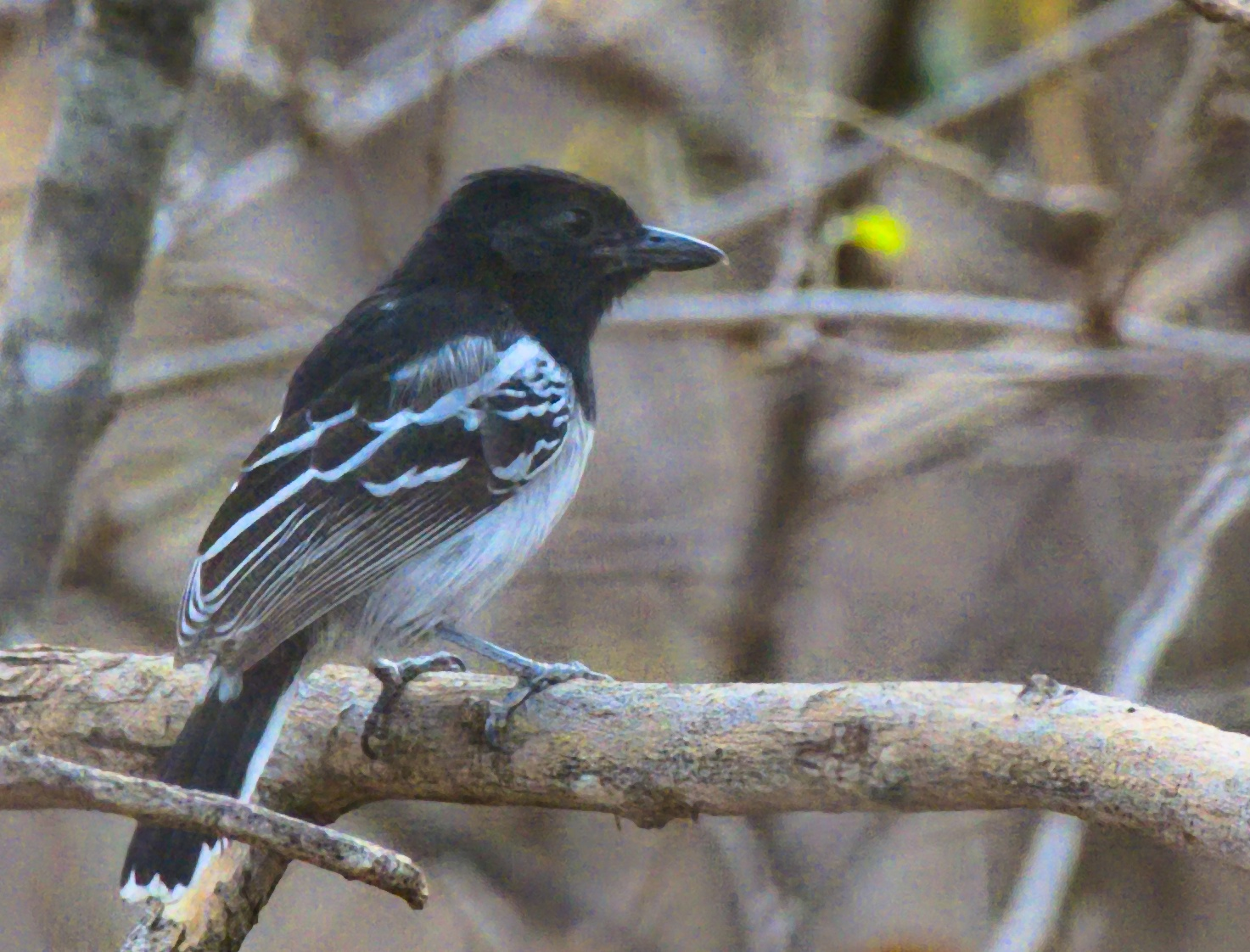 Black-backed Antshrike perched at Santuario de Fauna y Flora Los Flamencos, Colombia